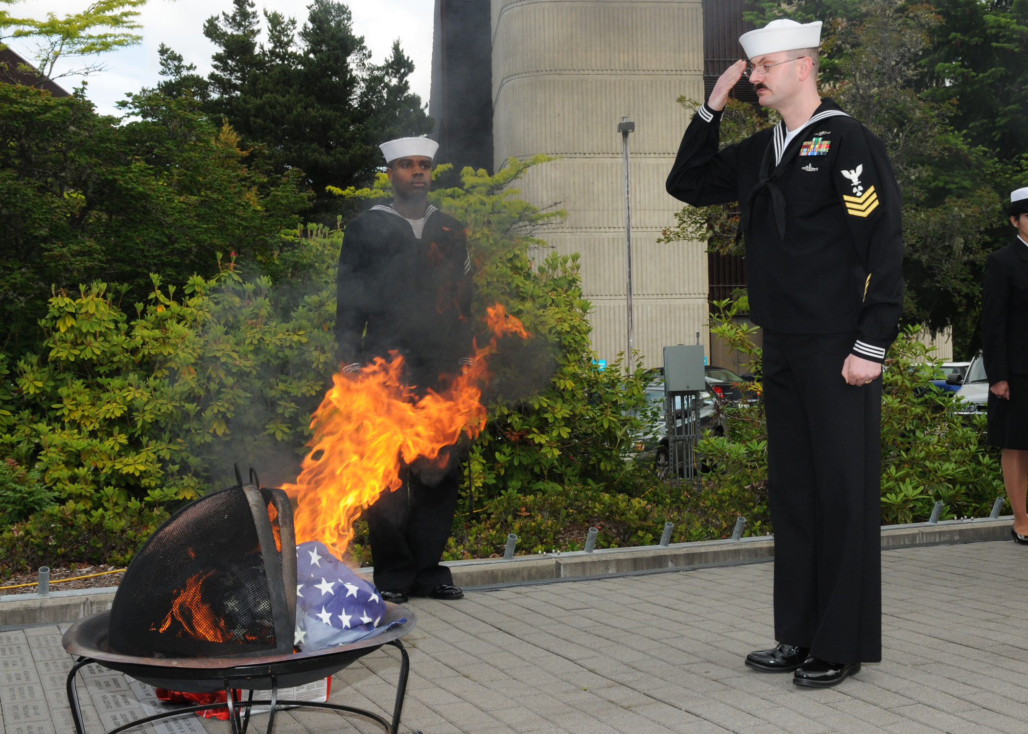 SILVERDALE, Wash. (June 14, 2010) Machinist's Mate 1st Class Scott T. Coykendall, an instructor at Trident Training Facility (TTF), salutes the burning remains of 14 national ensigns during a flag burning ceremony Naval Base Kitsap, Wash. Students and staff from TTF participated in the flag burning ceremony. (U.S. Navy photo by Mass Communication Specialist 2nd Class Chantel M. Clayton/Released)